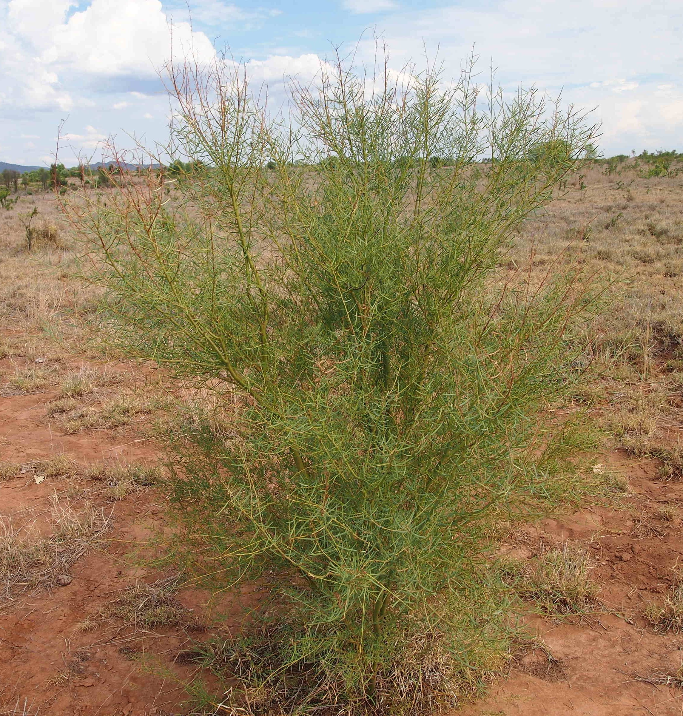 Acacia victoriae